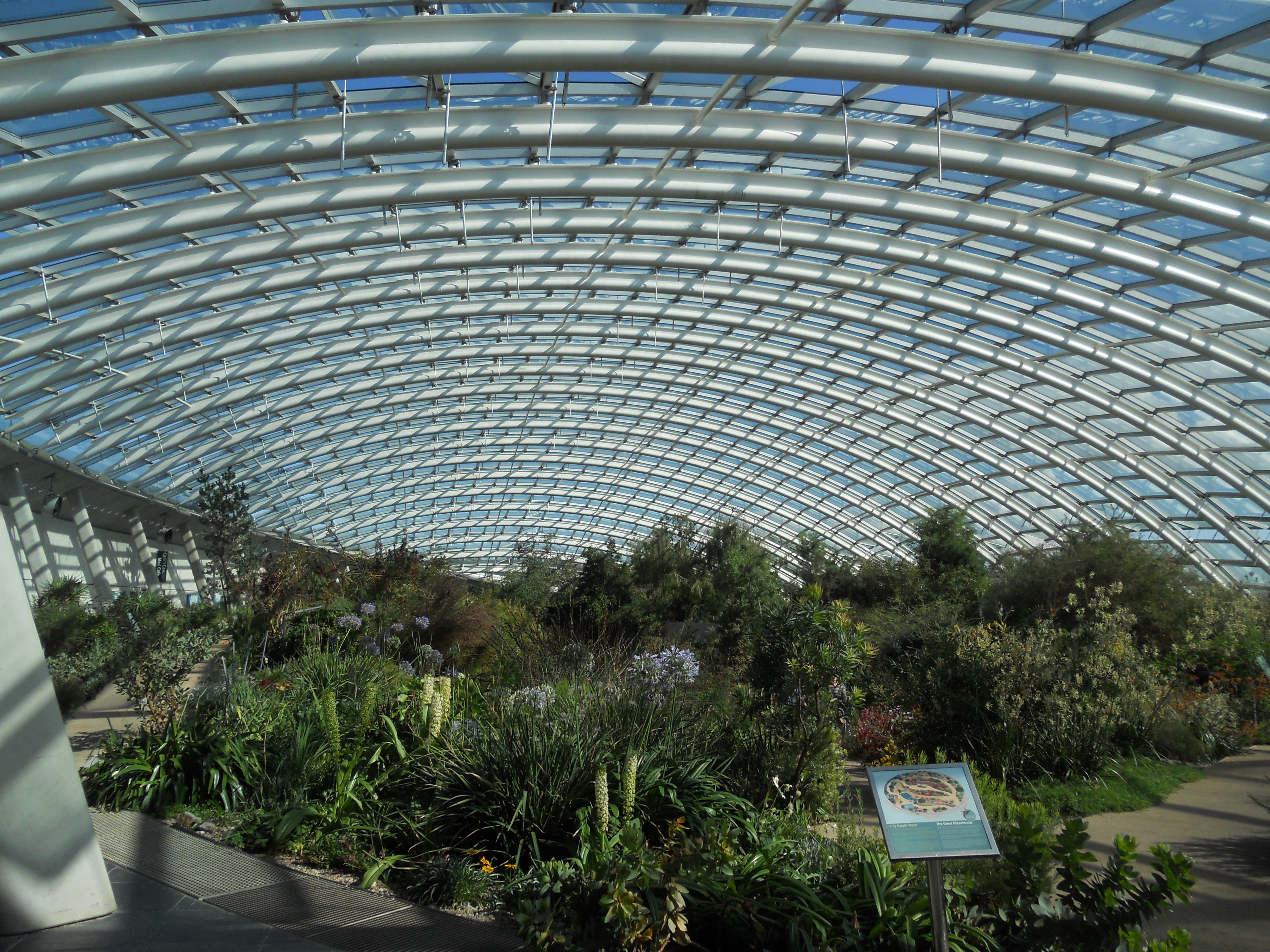 Greenhouse at the National Botanic Garden of Wales.